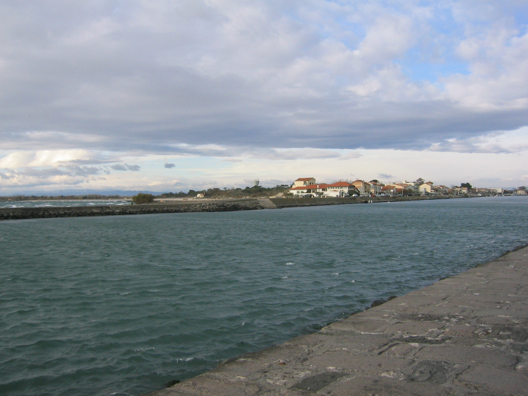 La Tamarissière (Hérault, France)